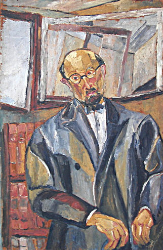 Portrait of Charles Vildrac, French writer (1882-1971)